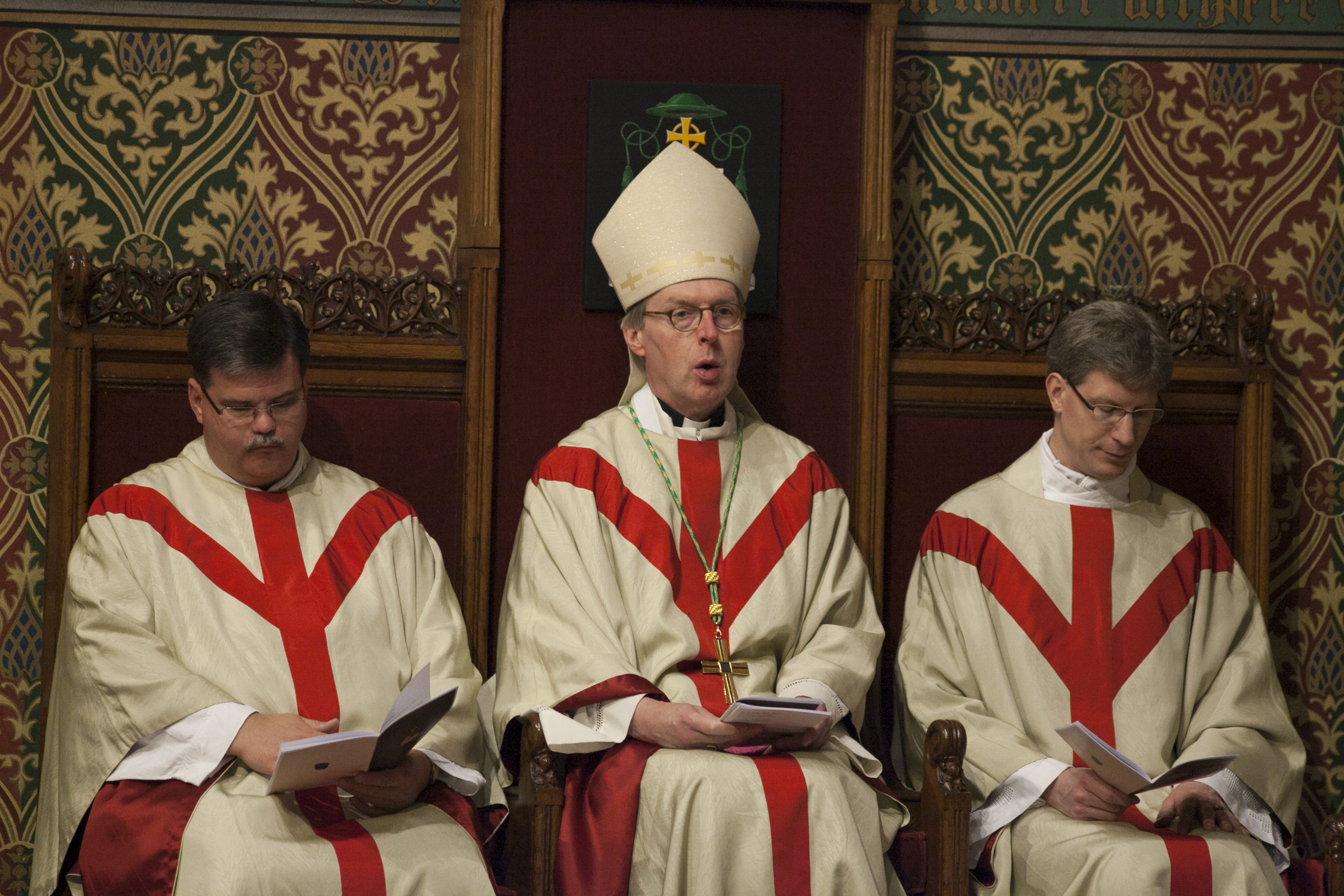 Bishop de Korte of Groningen Leeuwarden with both his vicars